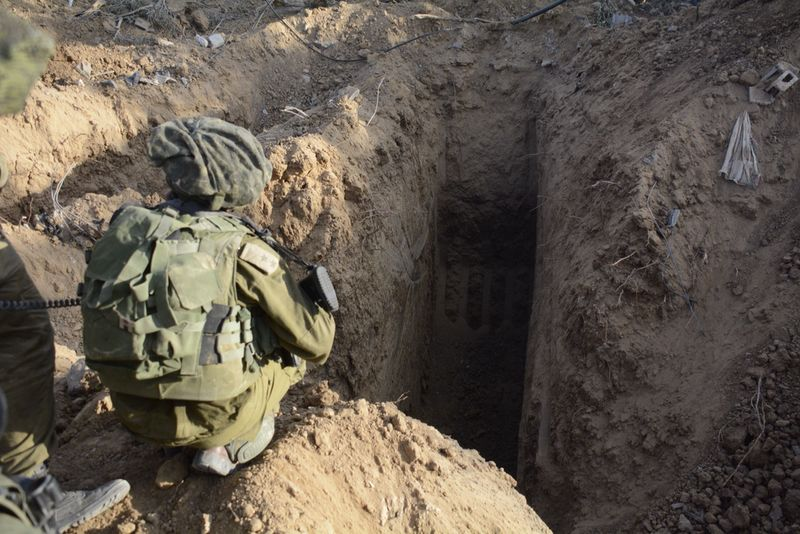 IDF soldier overlooking a Hamas-built tunnel in Gaza during Operation Protective Edge